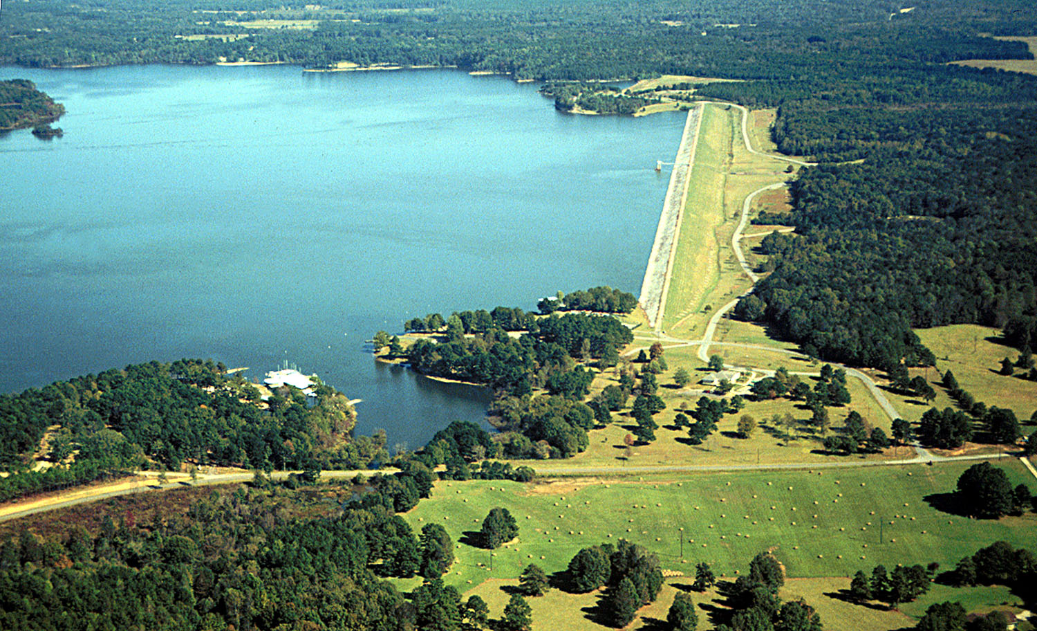 Aerial view of Okatibbee Dam and Lake on Okatibbee Creek, a tributary of the Chickasawhay River. The dam and lake are located in Lauderdale County, approximately 9 miles (14.5 km) northwest of Meridian, Mississippi, USA. The dam was constructed by the U.S. Army Corps of Engineers for flood control on the Okatibbee Creek and the upper Chickasawhay River. View is to the east.